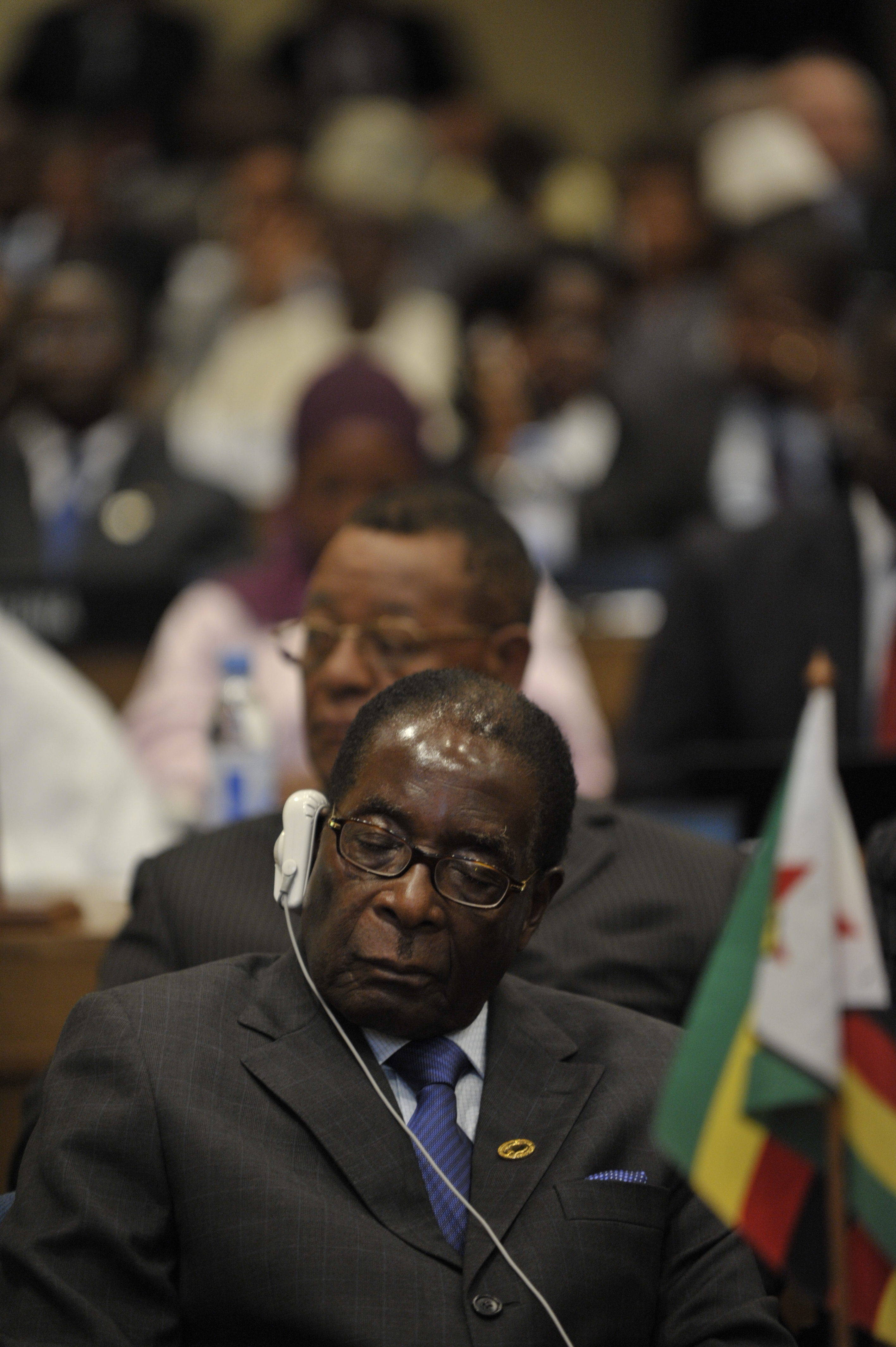 Robert Mugabe, the president of Zimbabwe, attends the 12th African Union Summit Feb. 2, 2009 in Addis Ababa, Ethiopia.